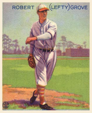 1933 Goudey baseball card of Robert "Lefty" Grove of the Philadelphia Athletics #220. PD-not-renewed.